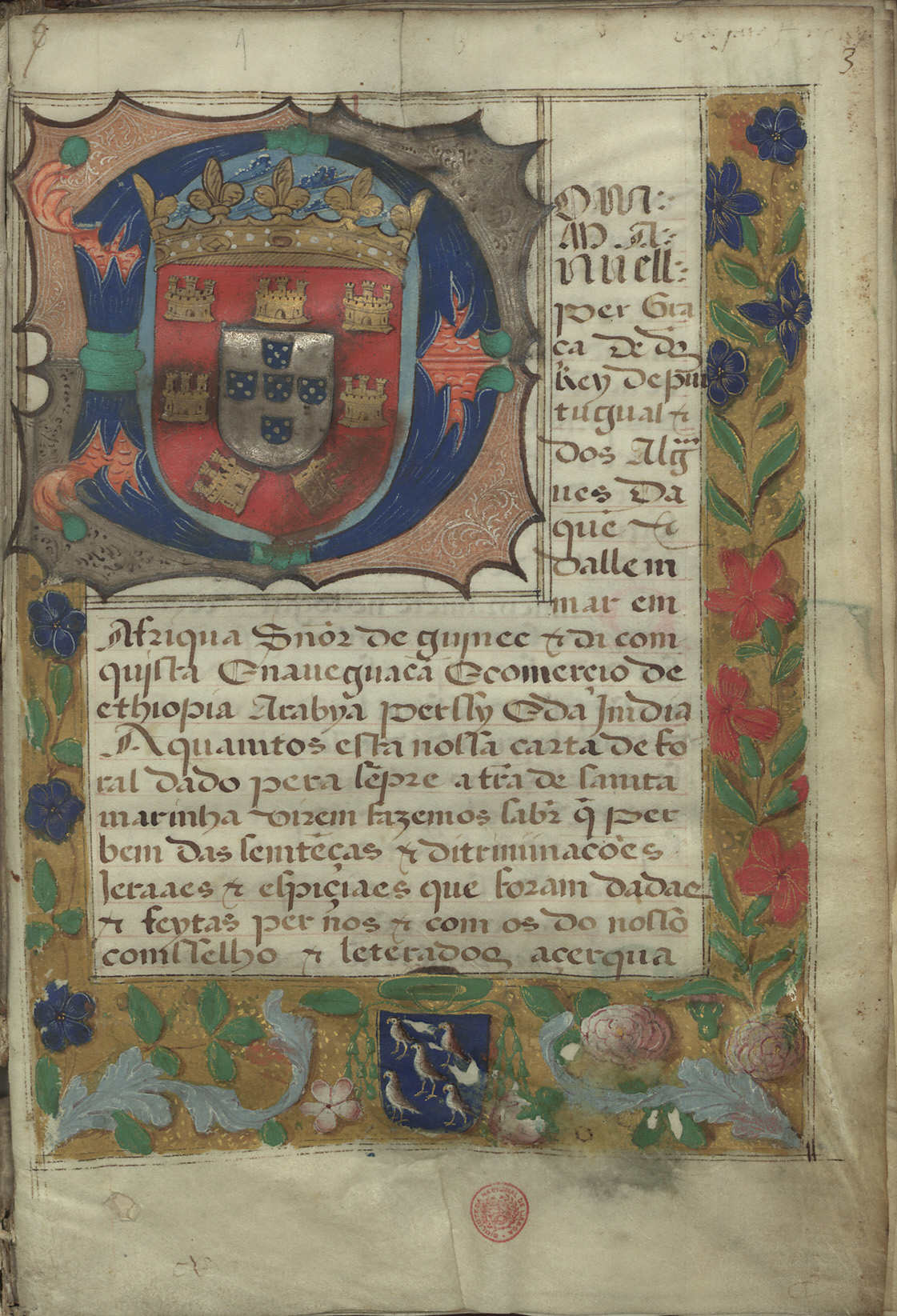 Town Charter of Santa Marinha, dated 15 May 1514.